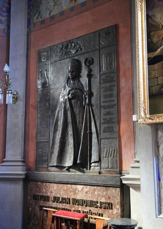 Church monument of bishop Antoni Julian Nowowiejski († 1941) in the Cathedral of Płock.